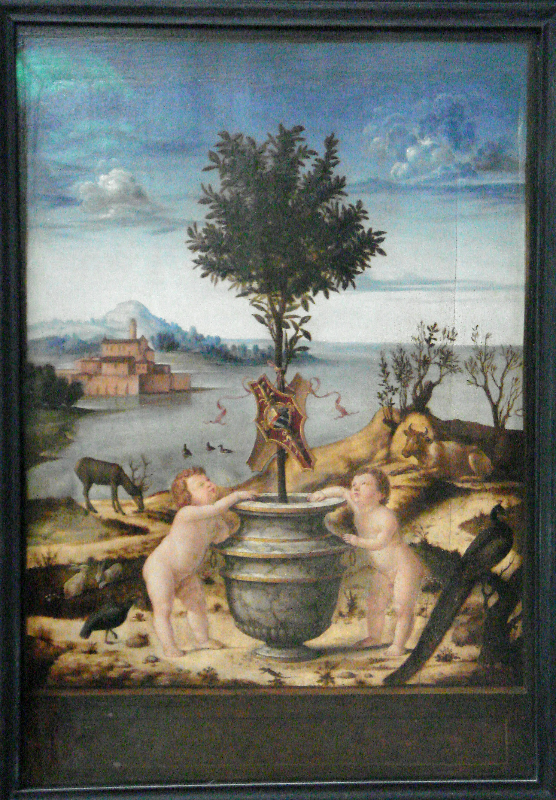 Marco_Maeziale_Portrait_of_a_man_1493_1507_reverse